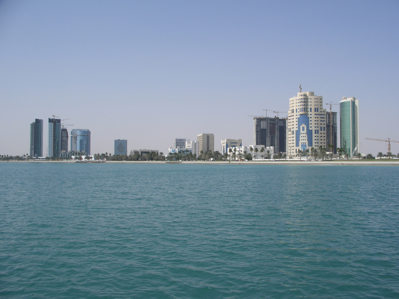 The skyline of the Qatari capital Doha.